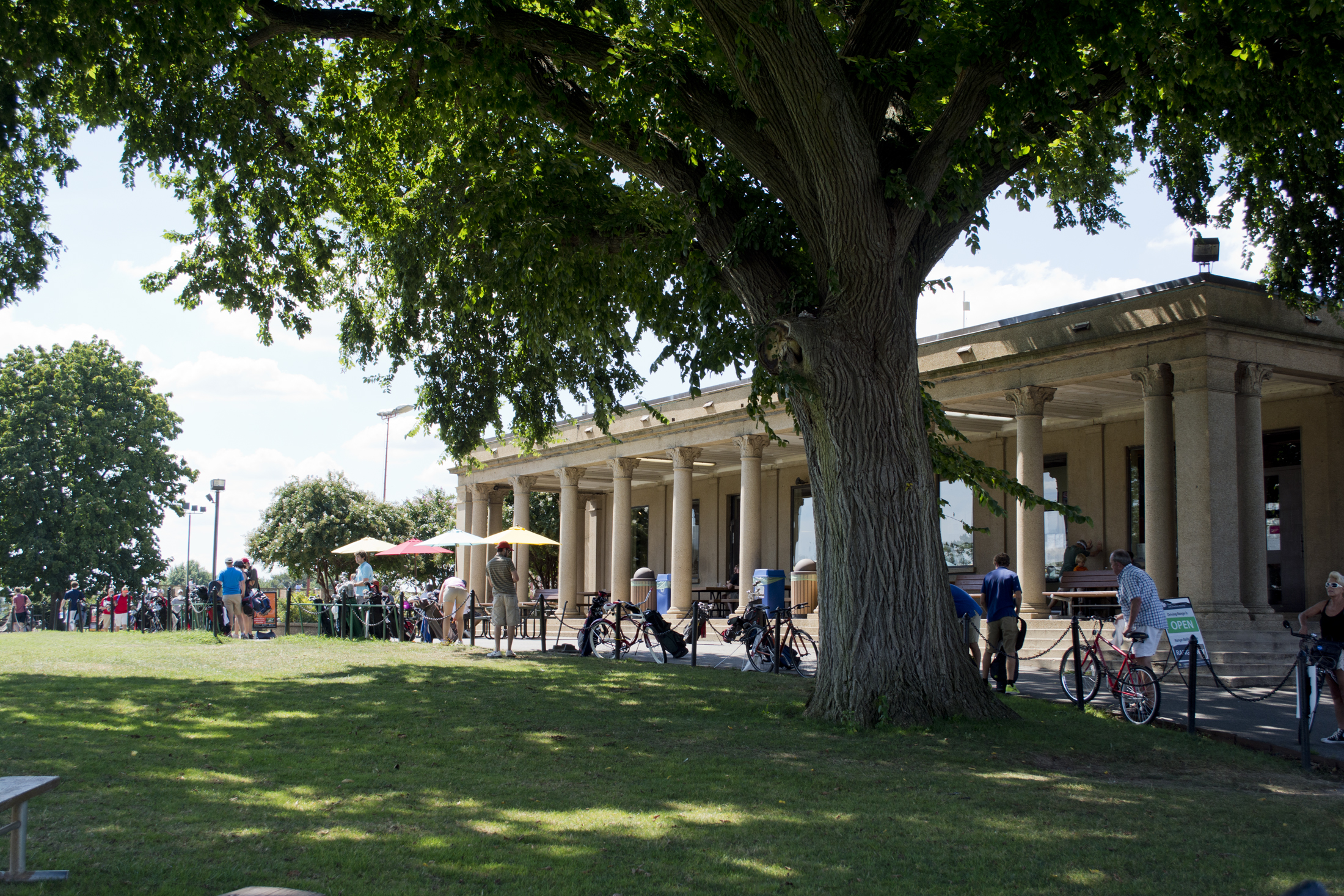 Clubhouse at the East Potomac Golf Course in East Potomac Park in Washington, D.C., in the United States.